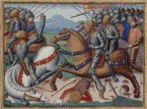 The Battle of Gerberoy (9 May 1435) as depicted in Vigiles de Charles VII, by Martial d'Auvergne.